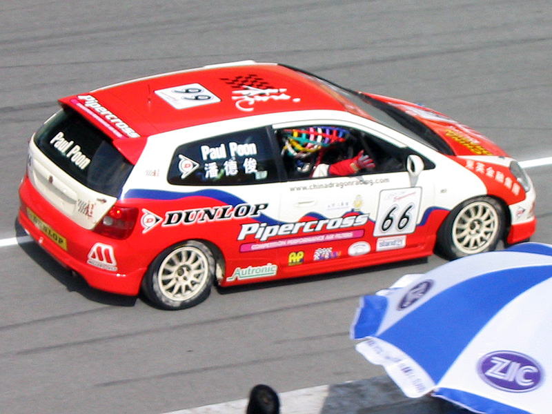 Paul Poon's Honda Civic EP3 finishes a race at Zhuhai International Circuit.